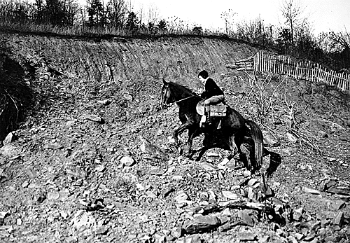 Trails are hard and riding for this Pack Horse Librarian is dangerous excepting at such points where the WPA has completed its farm-to-market road program.